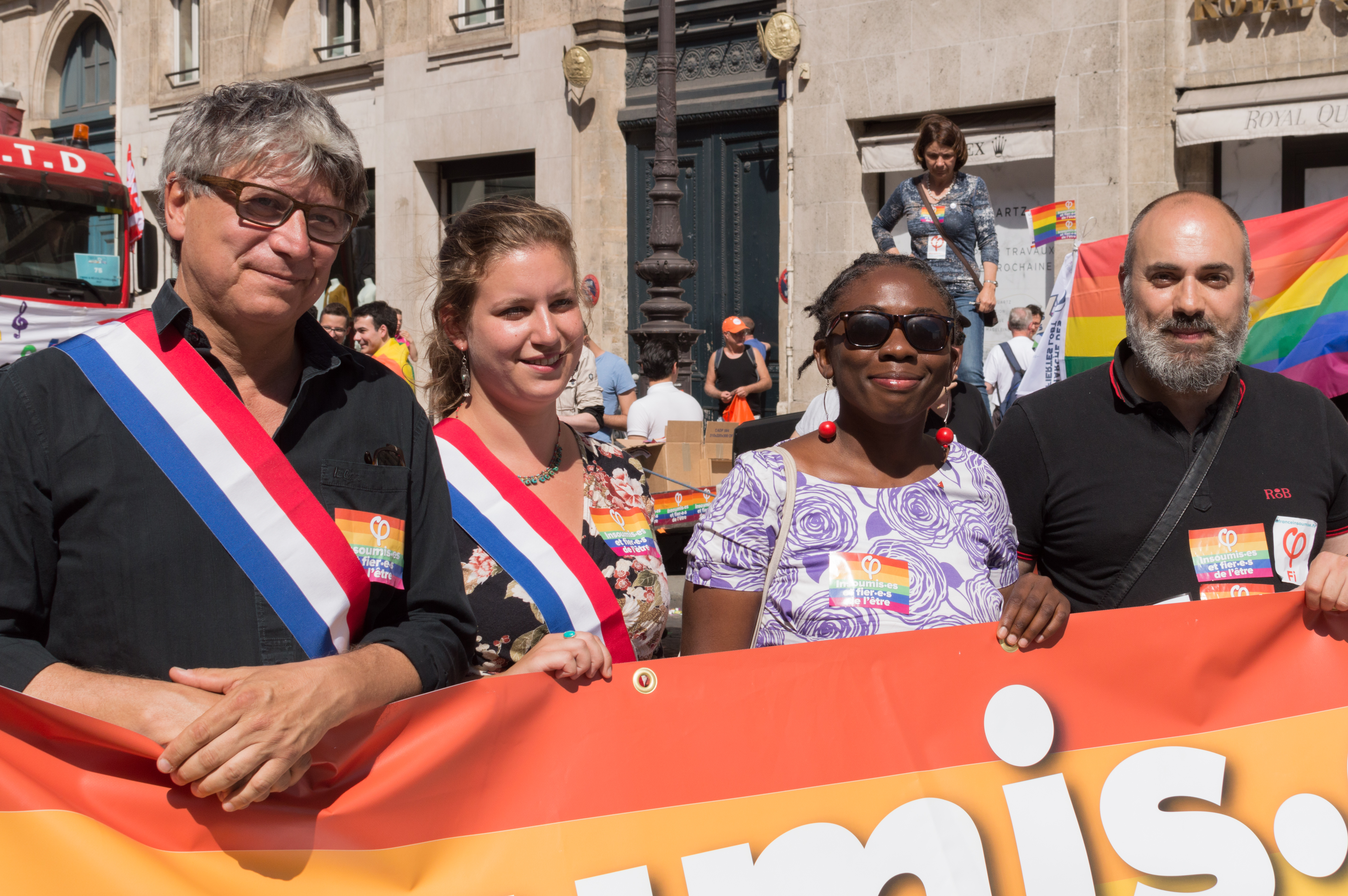 Paris Pride Parade 2017. AnnotationsThis image is annotated: View the annotations at Commons